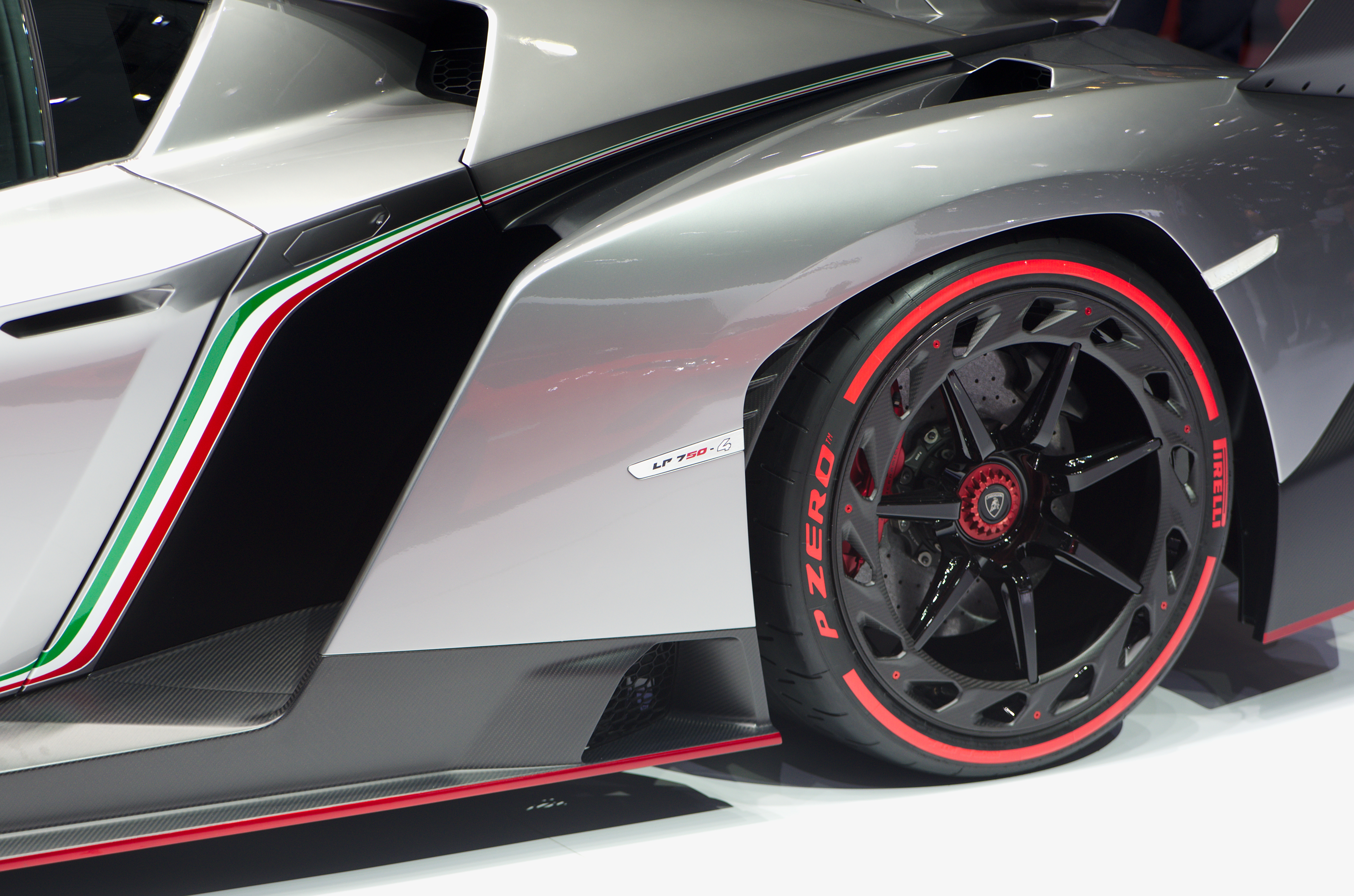 Geneva MotorShow 2013 - Lamborghini Veneno rear wheel 1